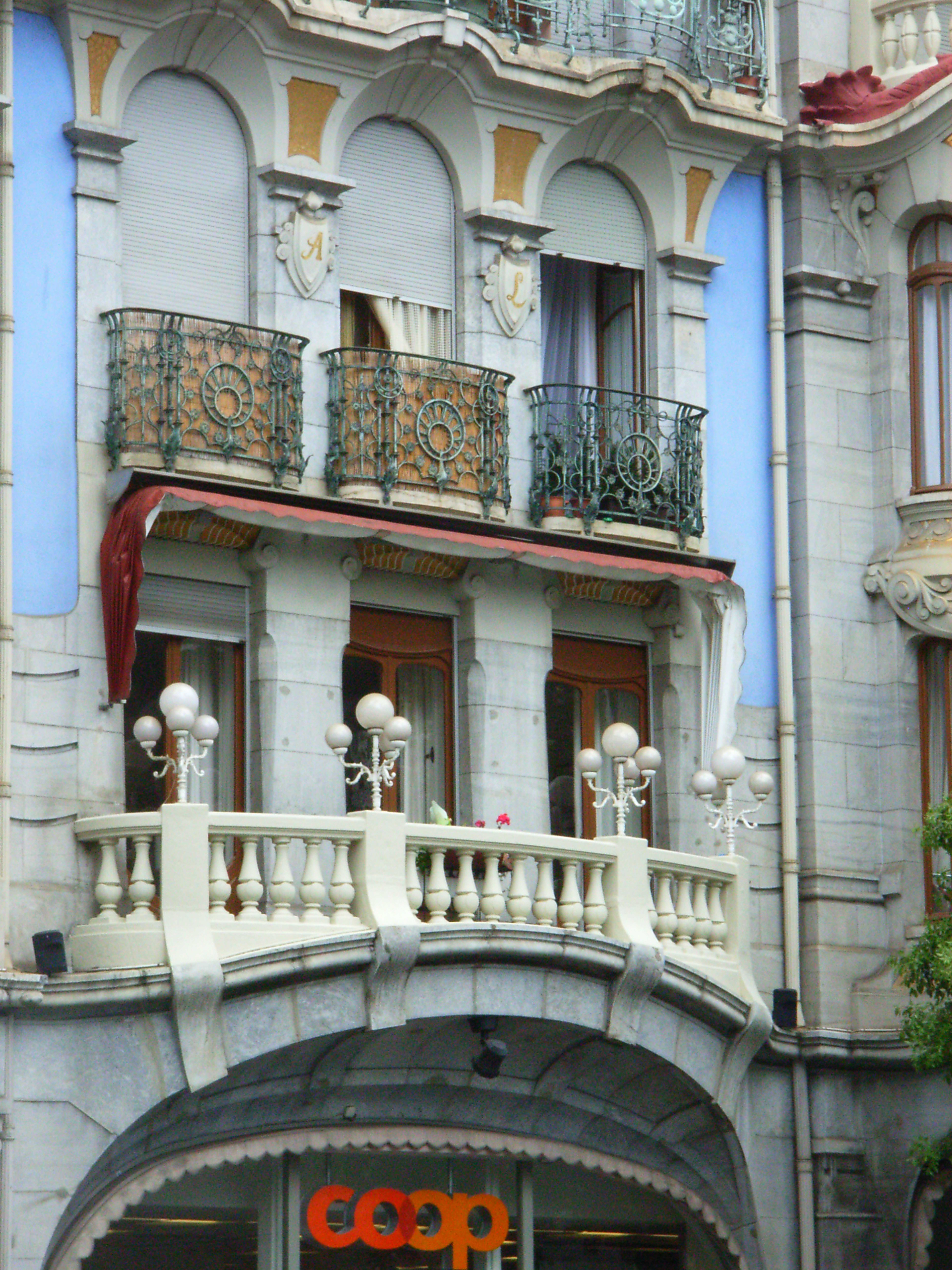 Montreux, building near train station, built approx. 1900 (Canton ov Vaud, Switzerland)